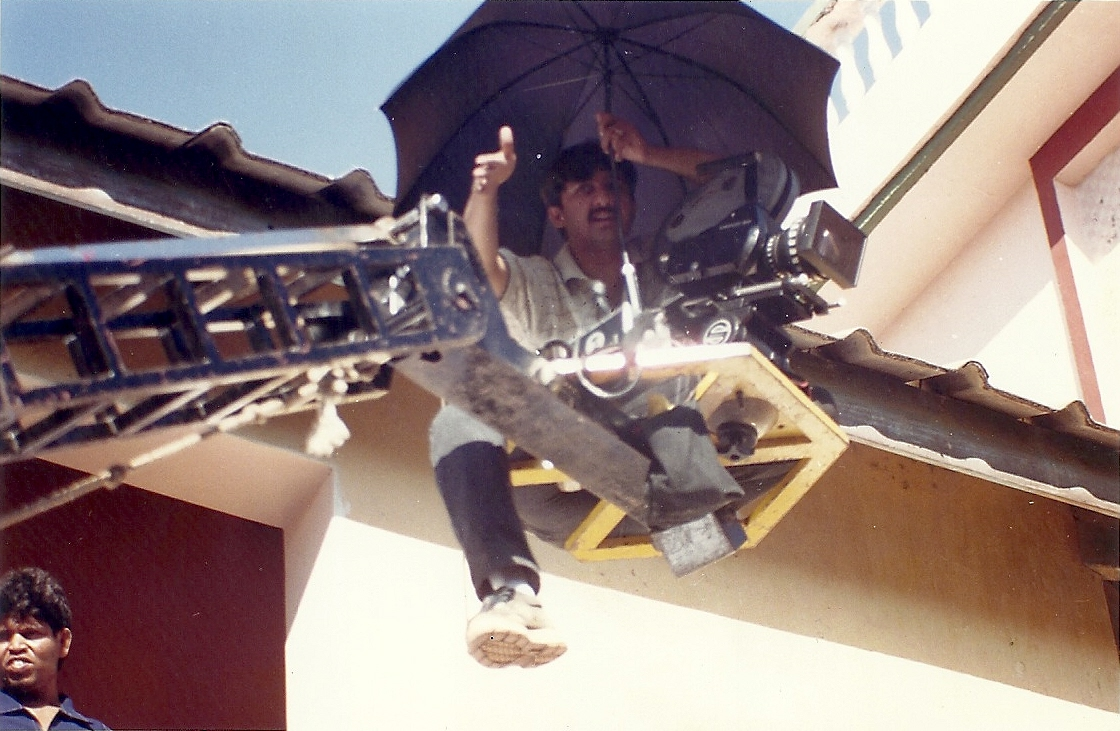 Teja in 1994, shooting for Ghulam